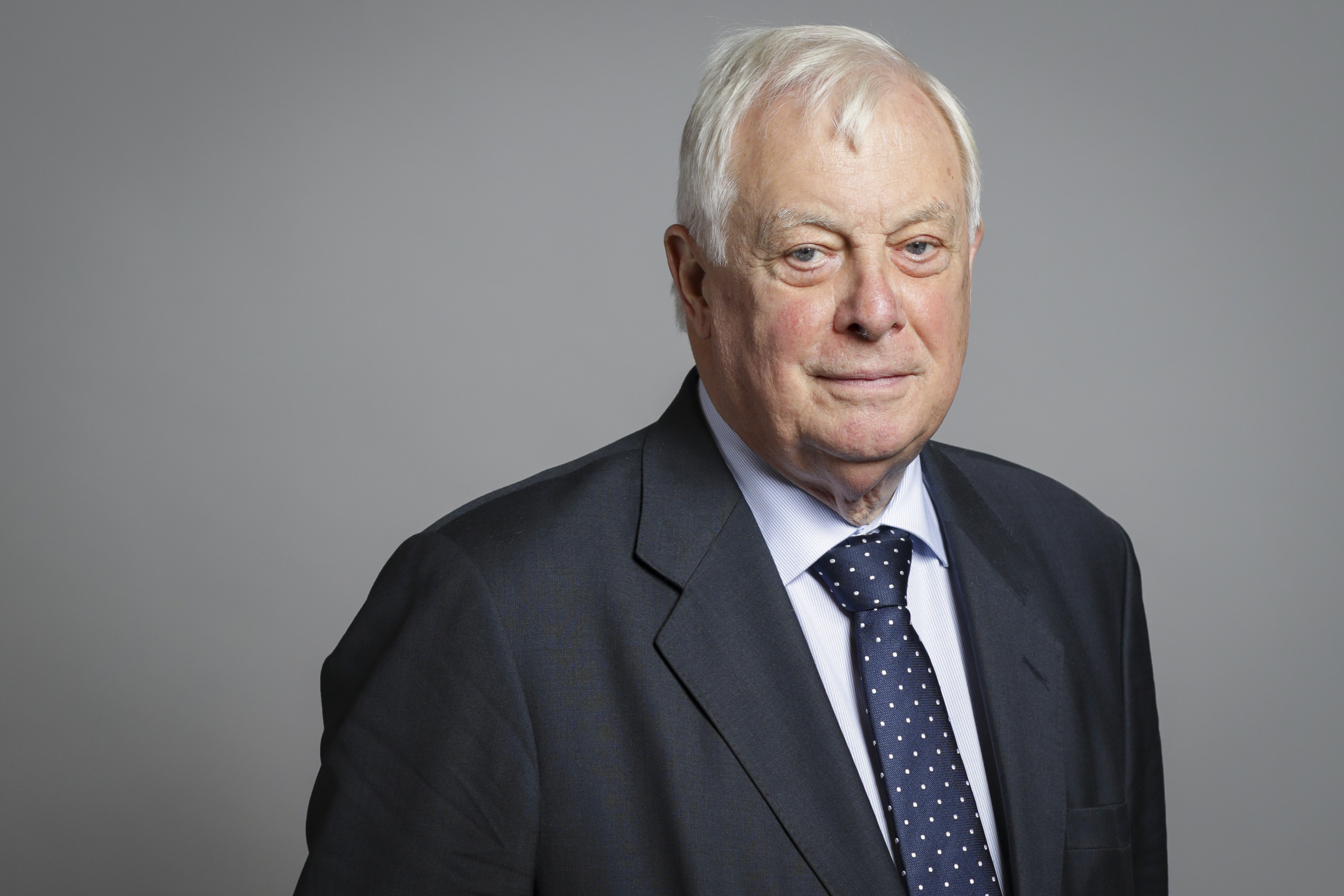 Official portrait of Lord Patten of Barnes 3×2 portrait of Lord Patten of Barnes